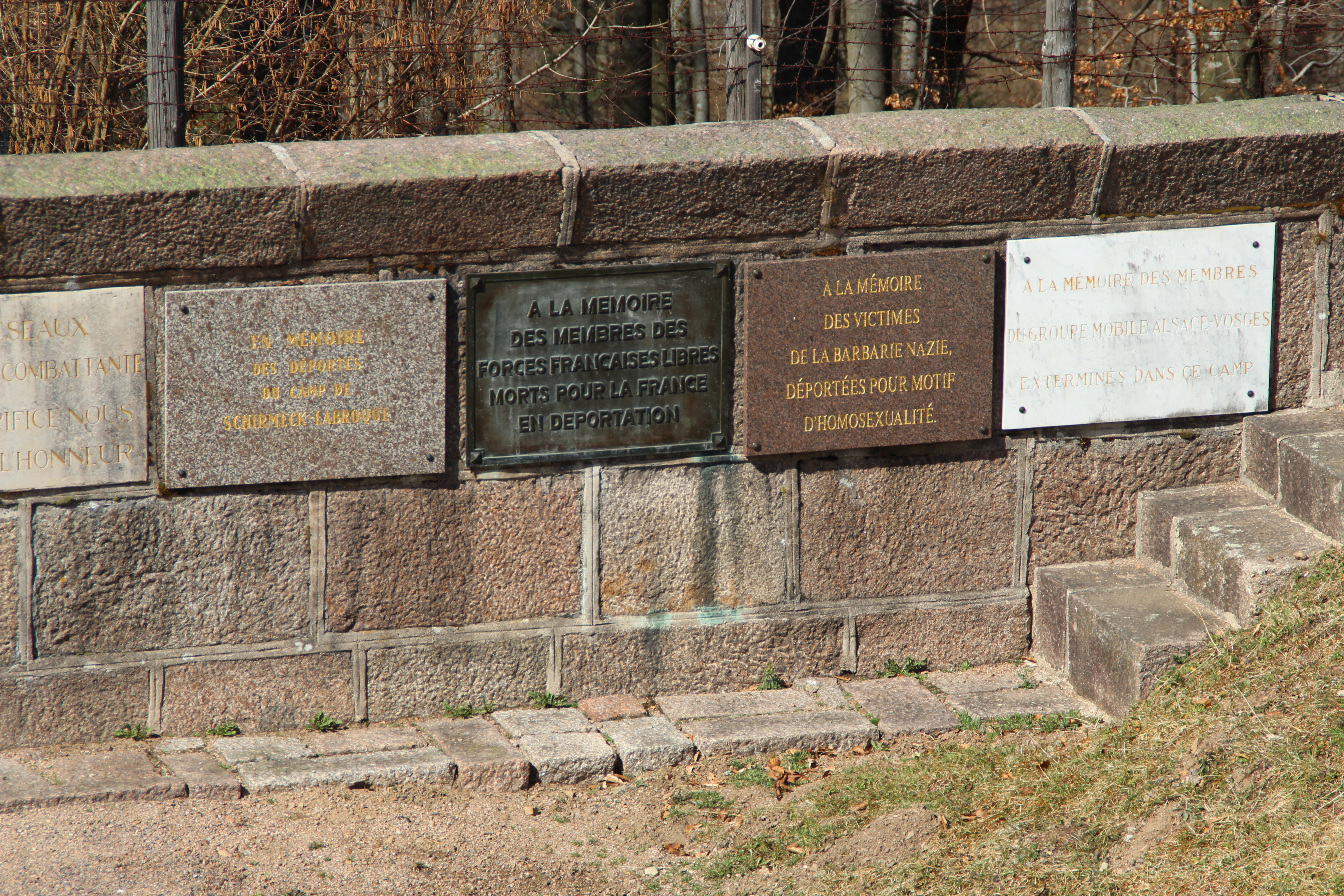 Natzweiler-Struthof concentration camp in Natzwiller, France. Object location48° 27′ 20.02″ N, 7° 15′ 14.58″ E .